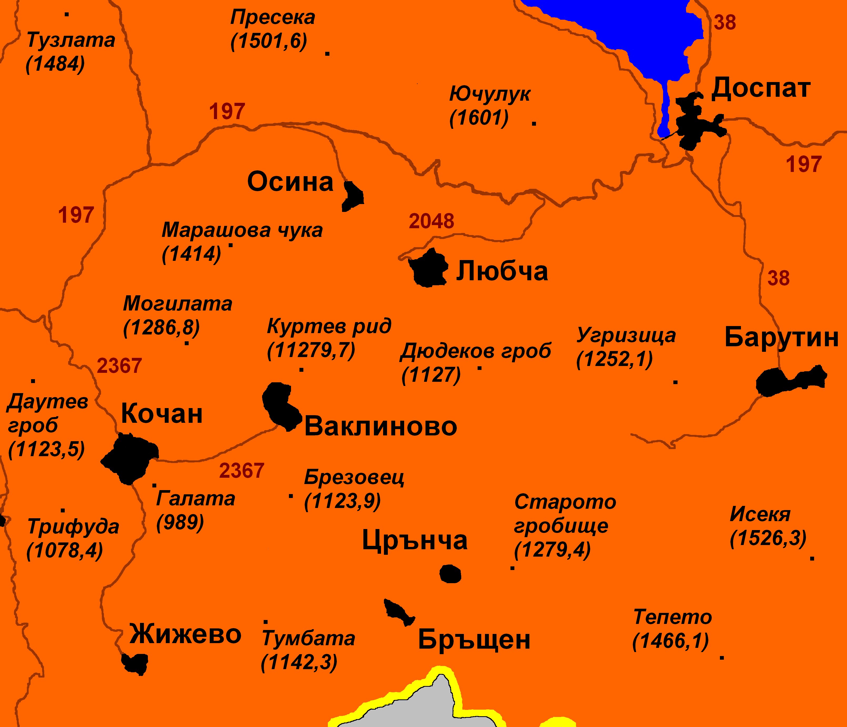 Map of North-East Chech with titles in Bulgarian.